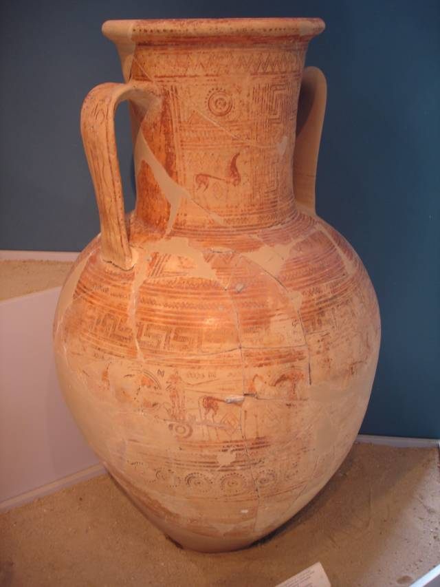 Amphora with geometric decoration and with depictions of horses on the neck and a frieze of chariots and hoplites on the belly. 8th cent. BC. Museum of Eleusis